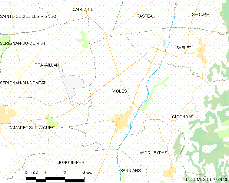 Map of French municipality Violès